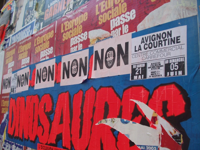 Campaign-Placards in Avignon, together with publicity of a dinosaurs-show